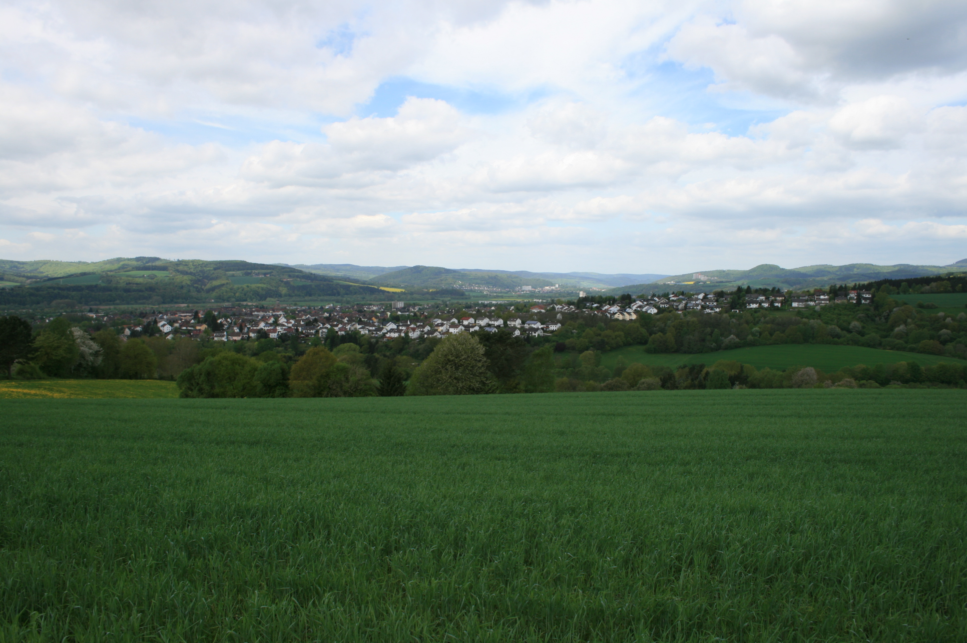 Blick auf Bebra 3